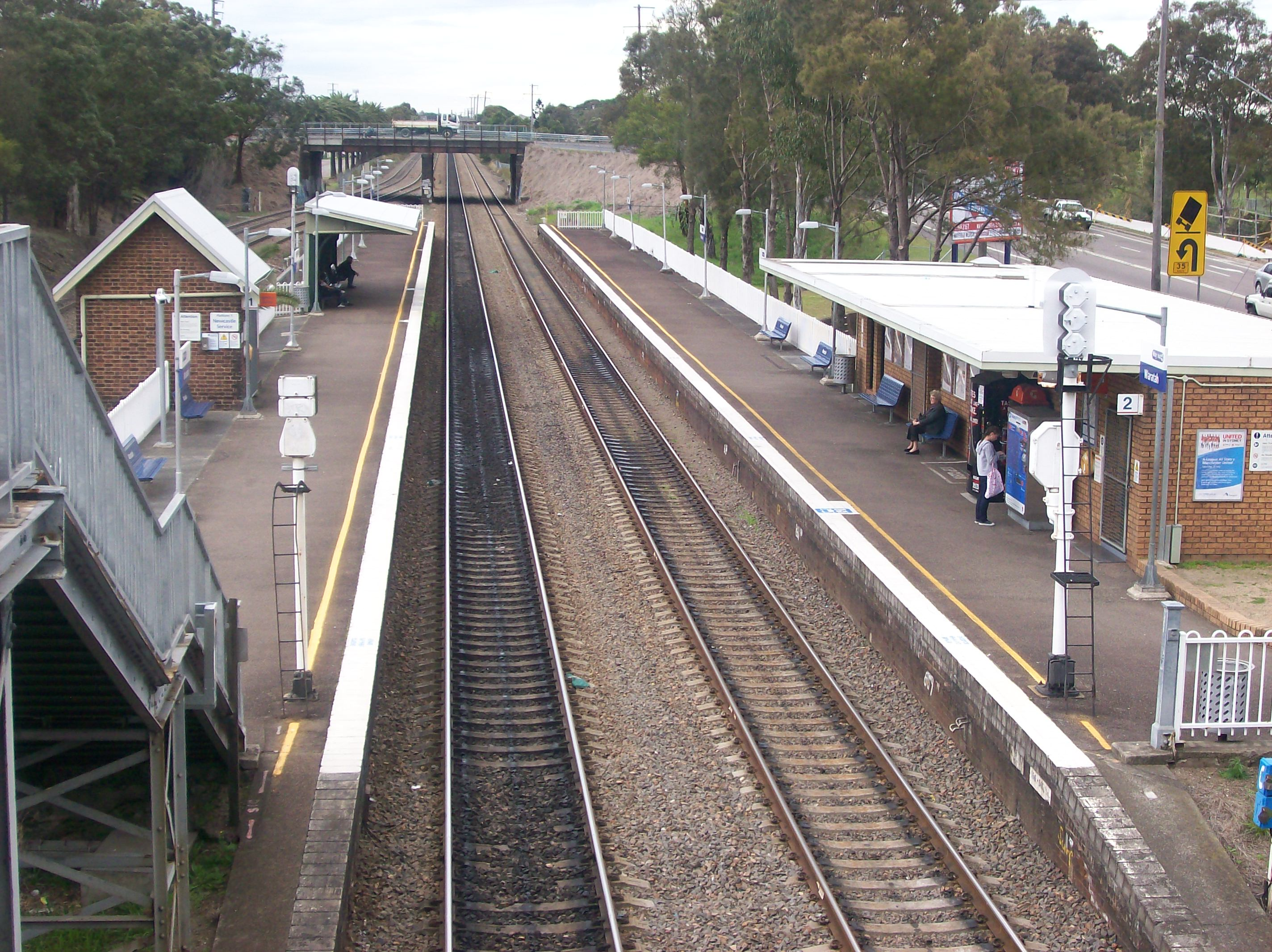 Waratah railway station, seen from footbridge